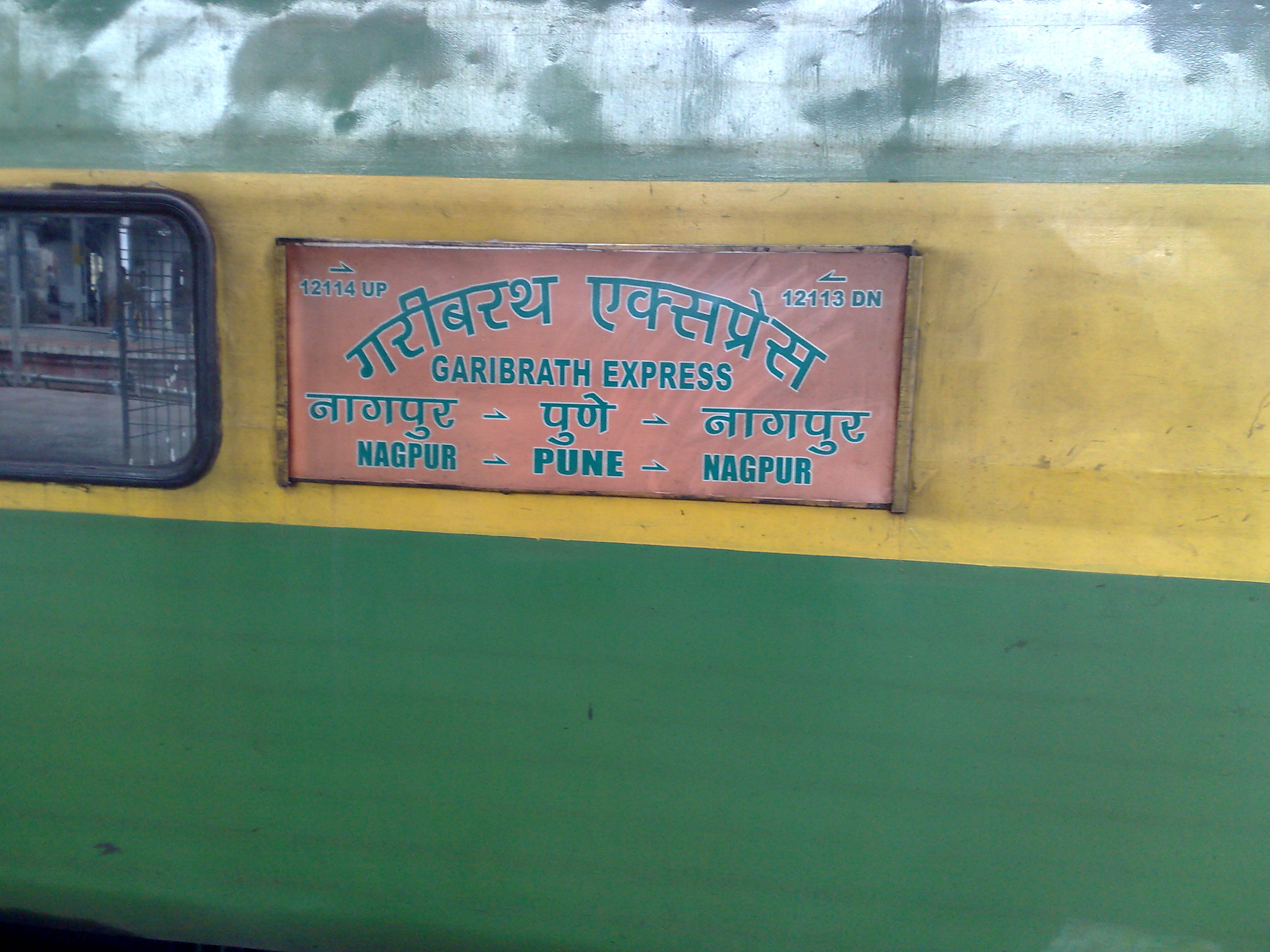 12113 Garib Rath Express 1